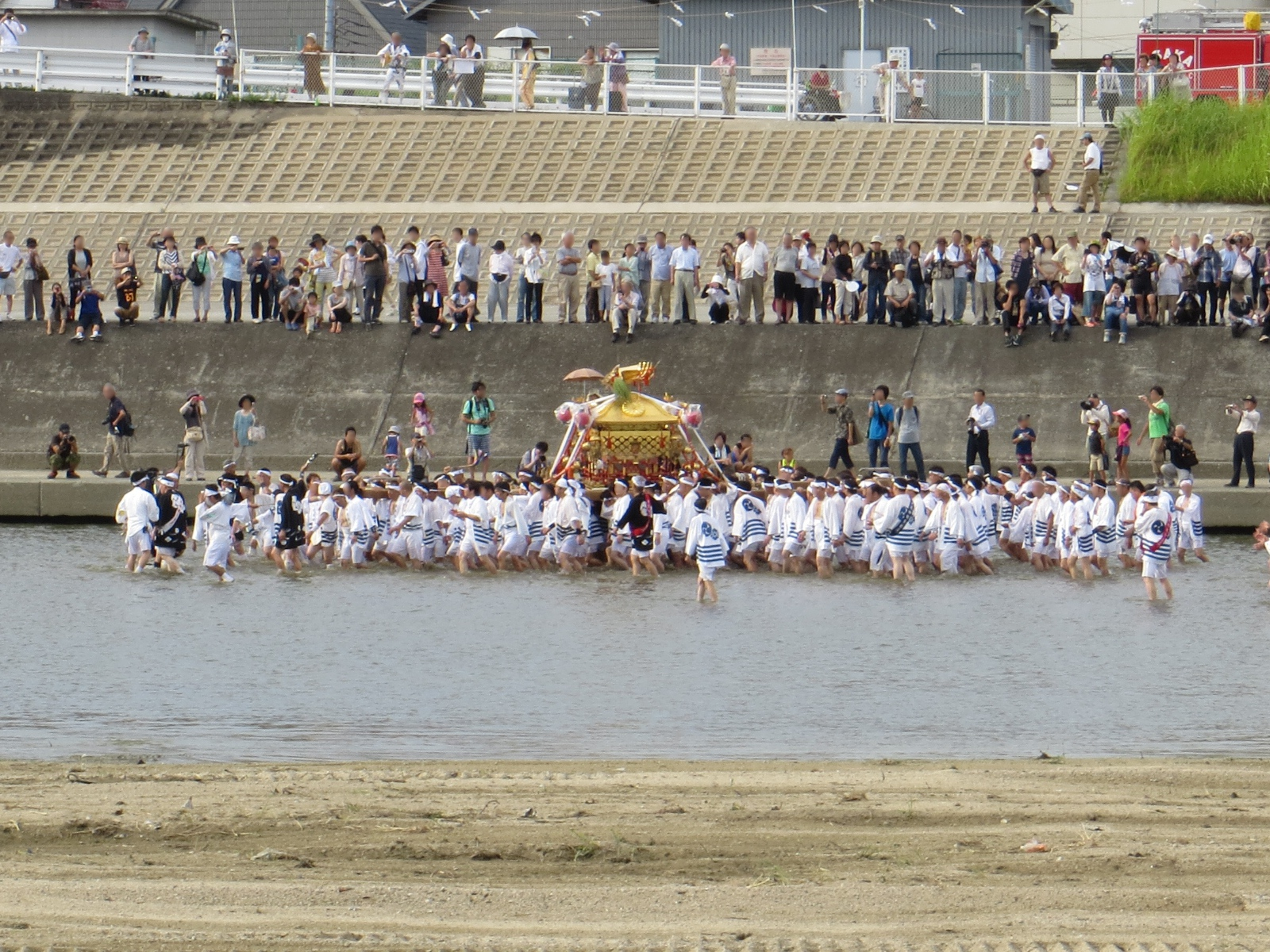 Sumiyoshi Matsuri Festival.